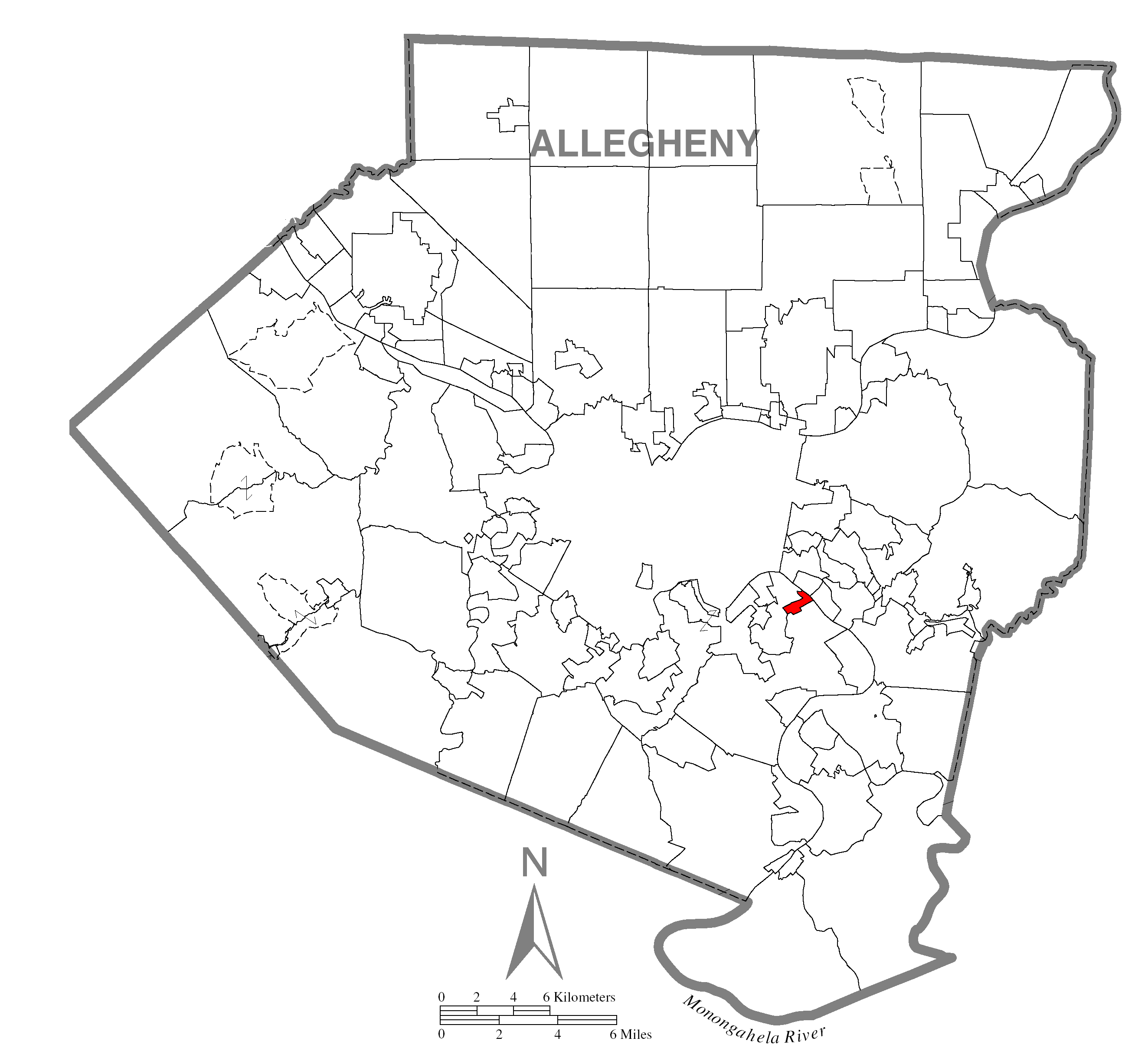 A map of Allegheny County showing Whitaker, Pennsylvania (alternate) highlighted on the map.